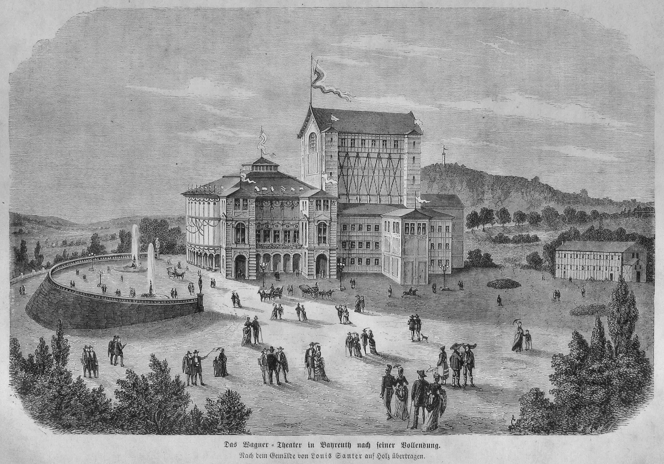 caption: "Das Wagner-Theater in Bayreuth nach seiner Vollendung. Nach dem Gemälde von Louis Santer auf Holz übertragen."